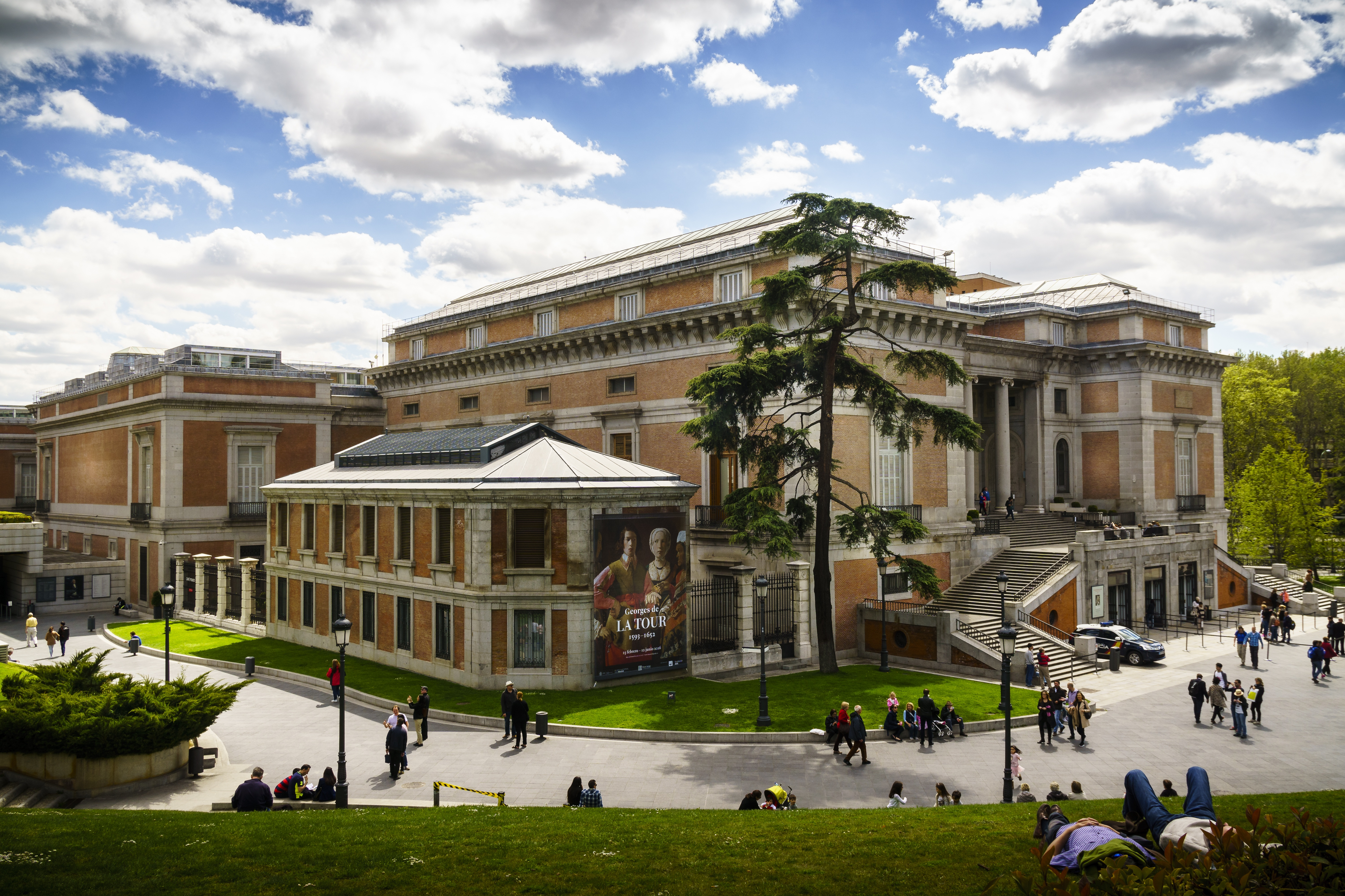 Exterior of the Prado Museum